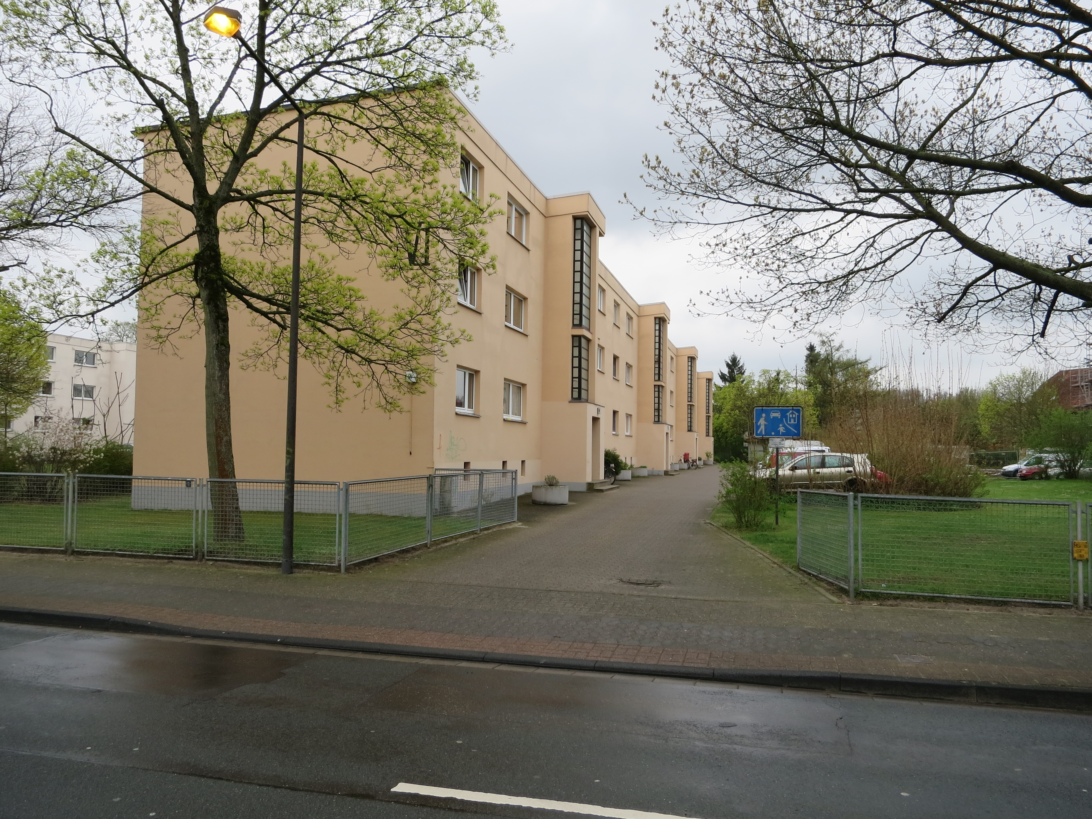 Siedlung Georgsgarten, Celle (1925)